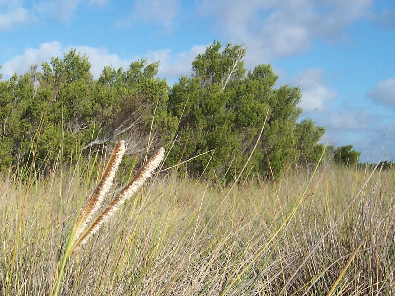 inland vegetation of Europa Island. On the foreground, grassland of Sclerodactylon macrostachyum (Poaceae), on the background scrubs of Pemphis acidula (Lythraceae).